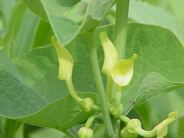 Species: Aristolochia clematitis Family: Aristolochiaceae Image No. 6